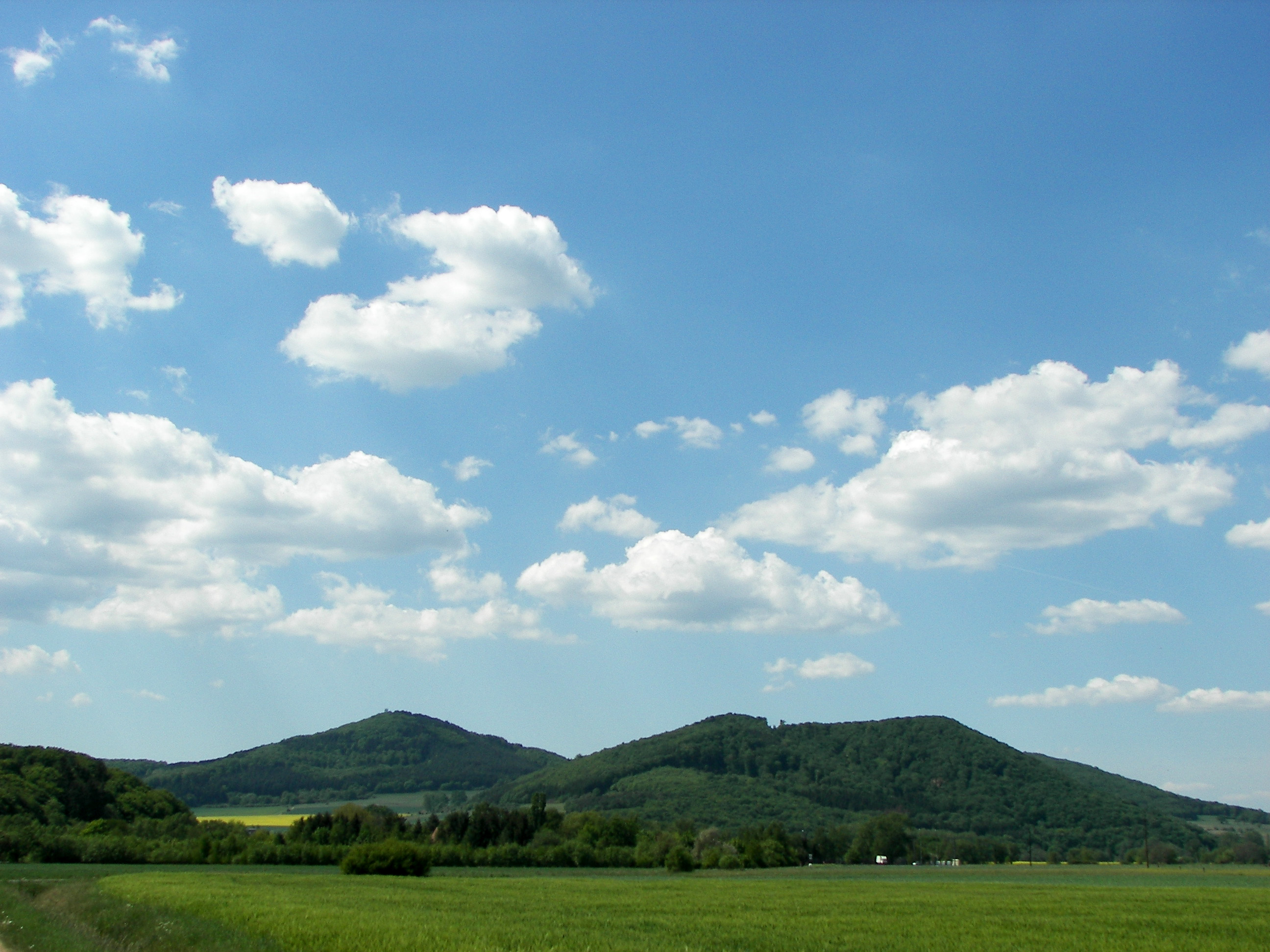 Rimberg and Feiselberg in spring , Location: Marburg-Biedenkopf district, Hesse, Germany